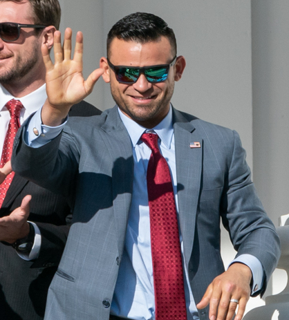 Members of the 2019 World Series Champion Washington Nationals acknowledge the applause of the crowd Monday, Nov. 4, 2019, from the South Portico balcony of the White House. (Official White House Photo by Andrea Hanks)